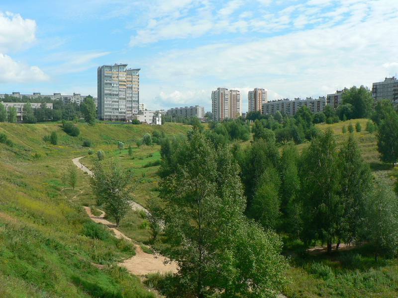 The general view of Lopatin ravine in Verkhniye Pechory of Nizhniy Novgorod city